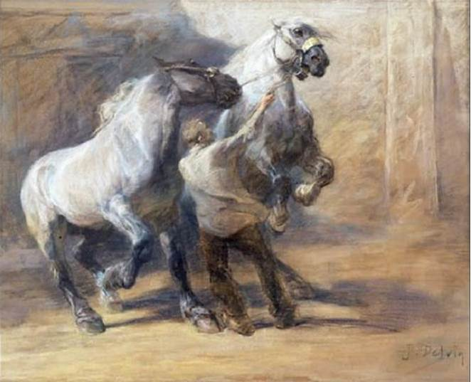 Horses (1894) by Belgian painter Jean Delvin